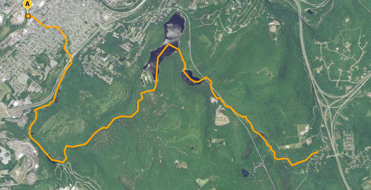 Satellite map of Stafford Meadow Brook, a major tributary of the Lackawanna River. The A is the stream's mouth. Data available from U.S. Geological Survey, National Geospatial Program.